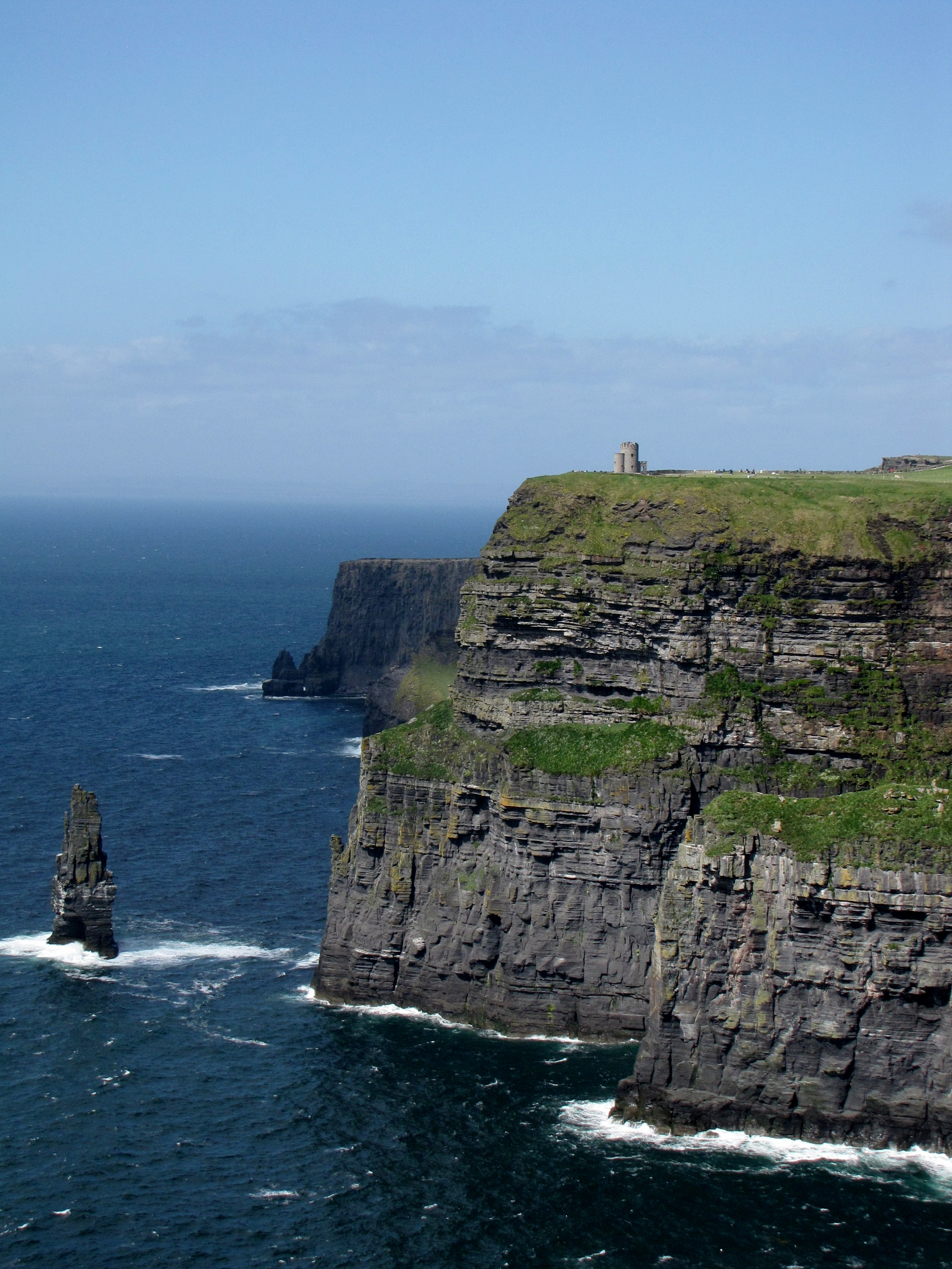 Cliffs of Moher, Ireland